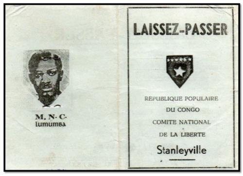 Official pass of the People's Republic of the Congo (Stanleyville), issued by the Conseil National de Libération. A picture of Patrice Lumumba is on the left page.